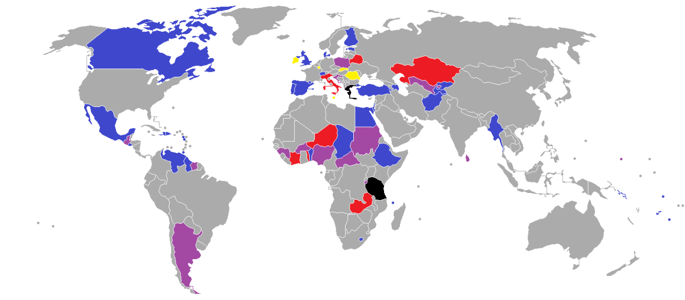 Countries that held or will hold general elections either for the head of state (most often the presidency), or for the national legislature or parliament (either the entire body or only a specific class), and nationwide referendums. Key: Red: Presidential elections Purple: Presidential and parliamentary/legislative elections Blue: Parliamentary/legislative elections Green: Parliamentary/legislative elections and referendums Yellow: Referendums Orange: Presidential elections and referendums Black: Presidential and parliamentary/legislative elections, and referendums Gray: Cancelled